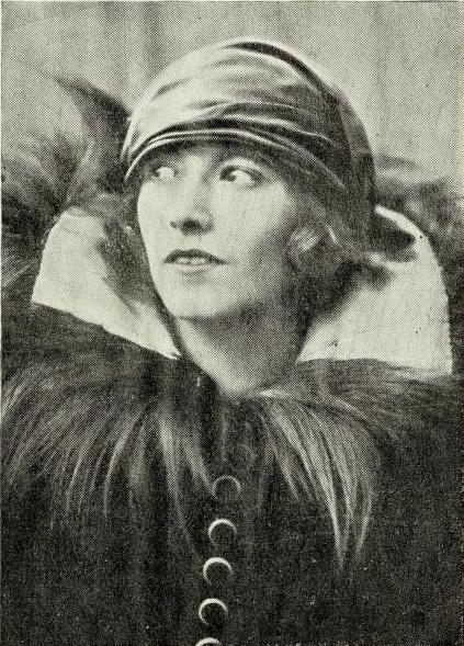 A young white woman wearing a scarf low across her forehead, and a large, dramatic, fur or feather collar.